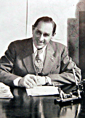 Clyde Doyle, US Representative from California